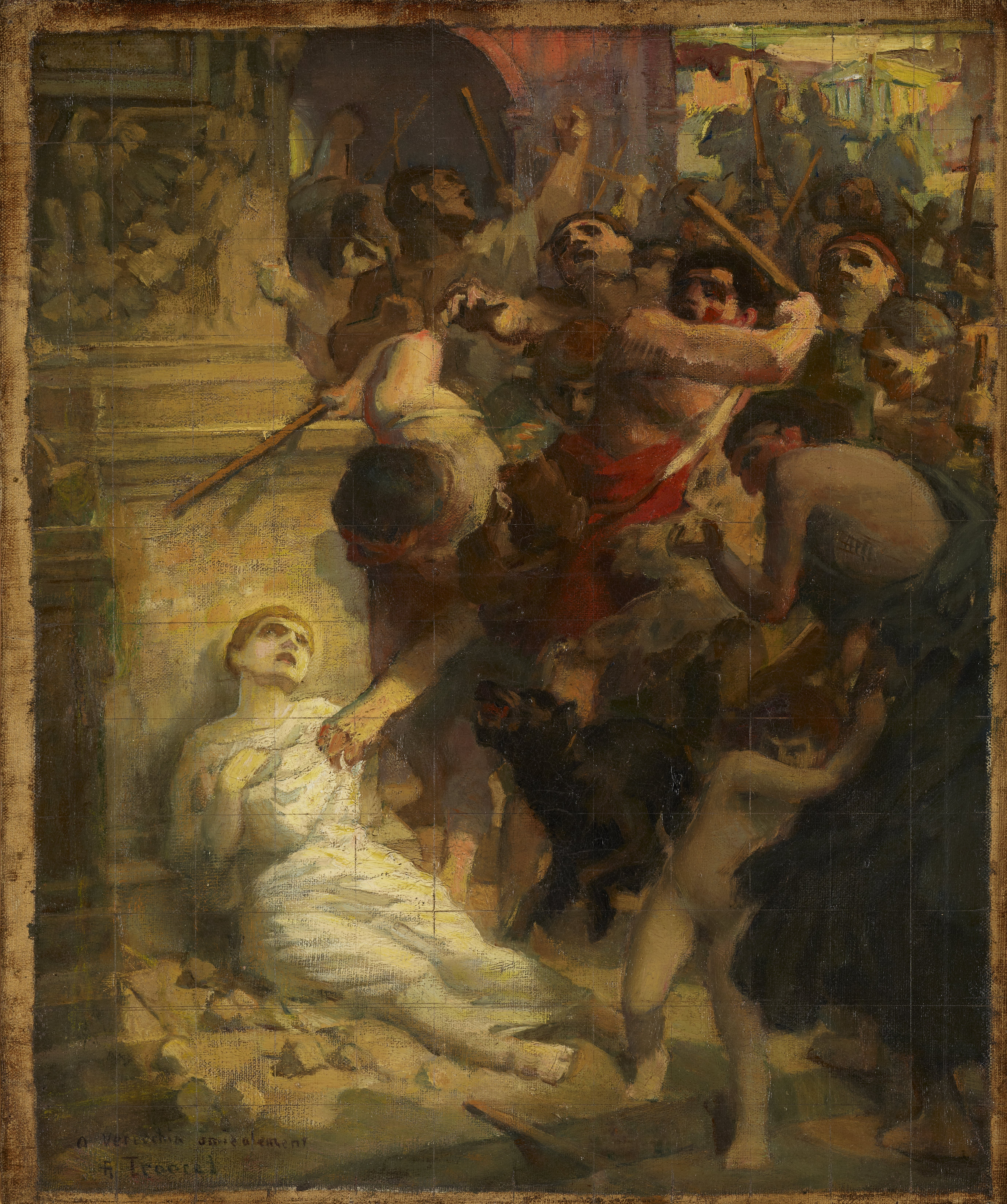 sketch of saint figure with blonde hair wearing white garment, with yellow light around figure, seated leaning against the base of an architectural element; crowd of figures at right, with barking black dog, including figure with staff leaning over to grab chest of blonde seated figure; figures at right have torches and staffs; image drawn with gridlines